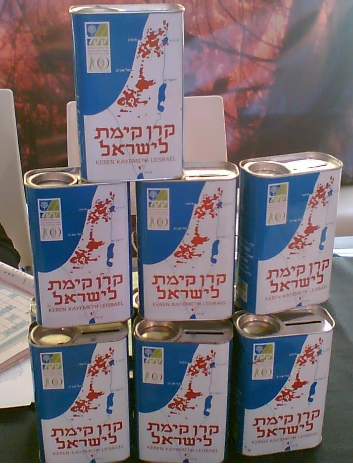 "Blue Box", Pushka of the Jewish National Fund, model 2006. Image taken by David Shay.